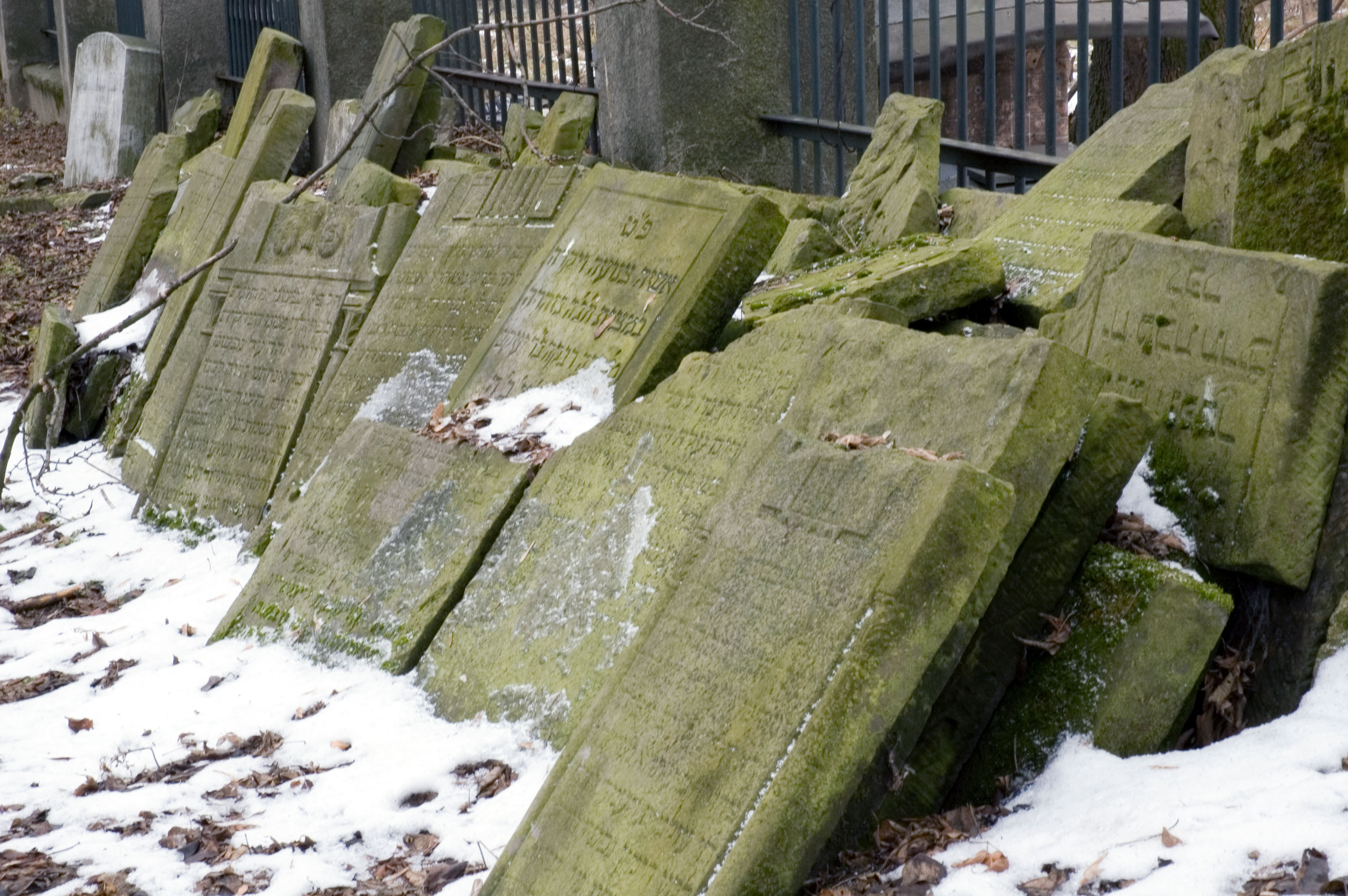 New jewish cemetery in Lublin